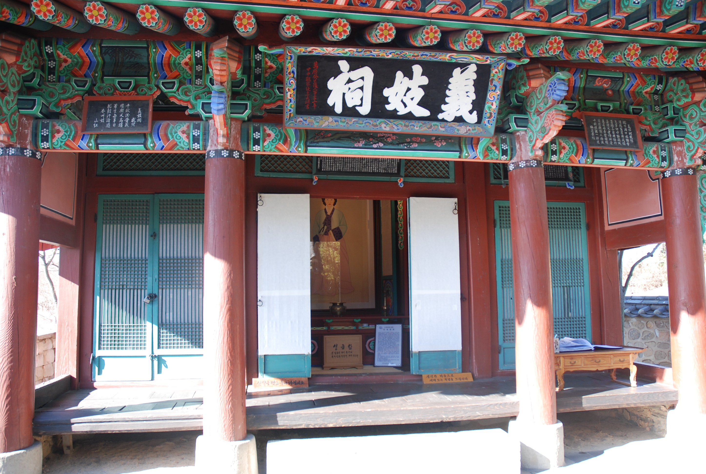 Uigisa ("The Shrine of the Righteous Prostitute") Center, The Nongae shrine in the Jinju Castle